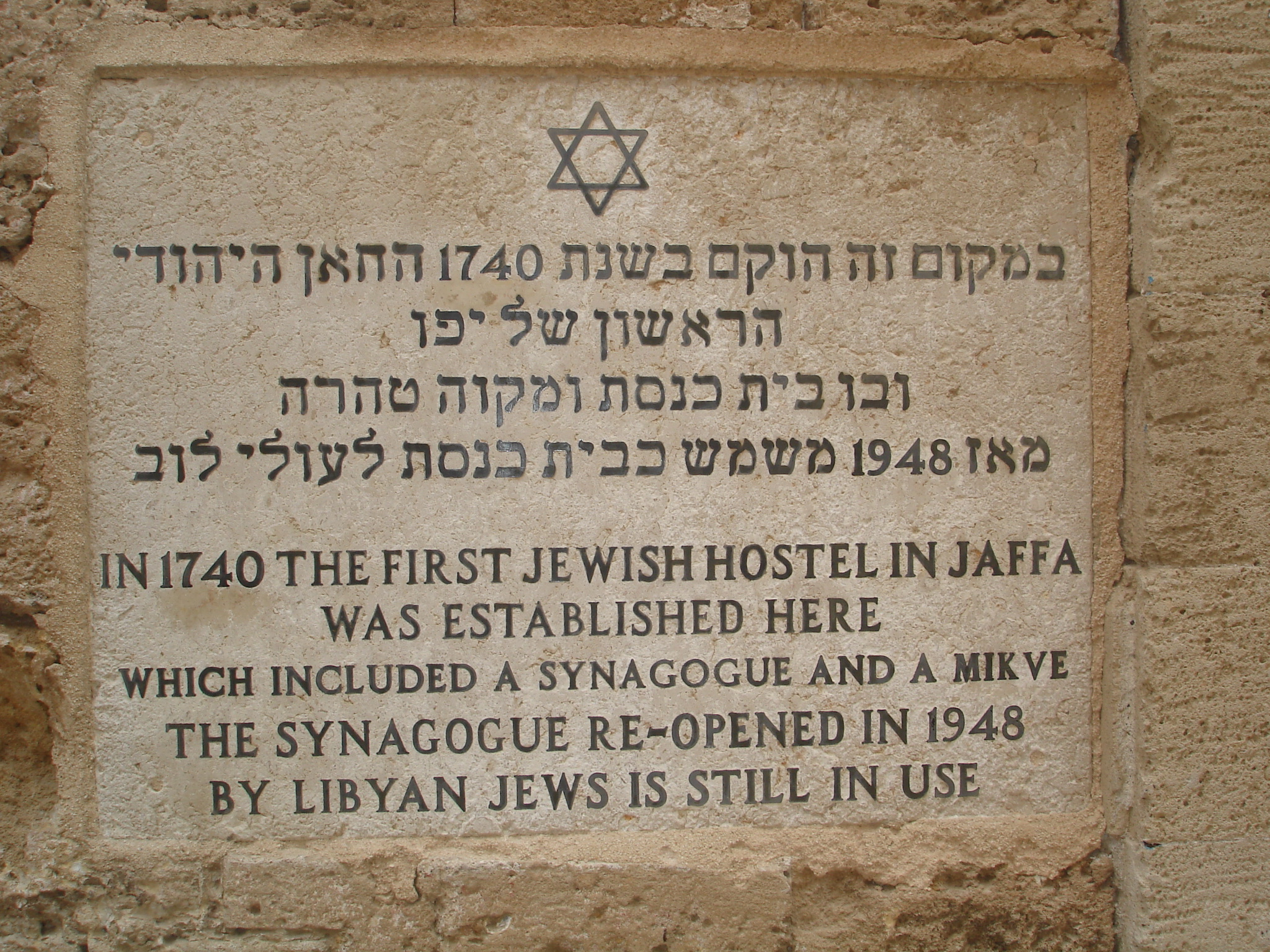 Libyan synagogue of Jaffa (Israel)